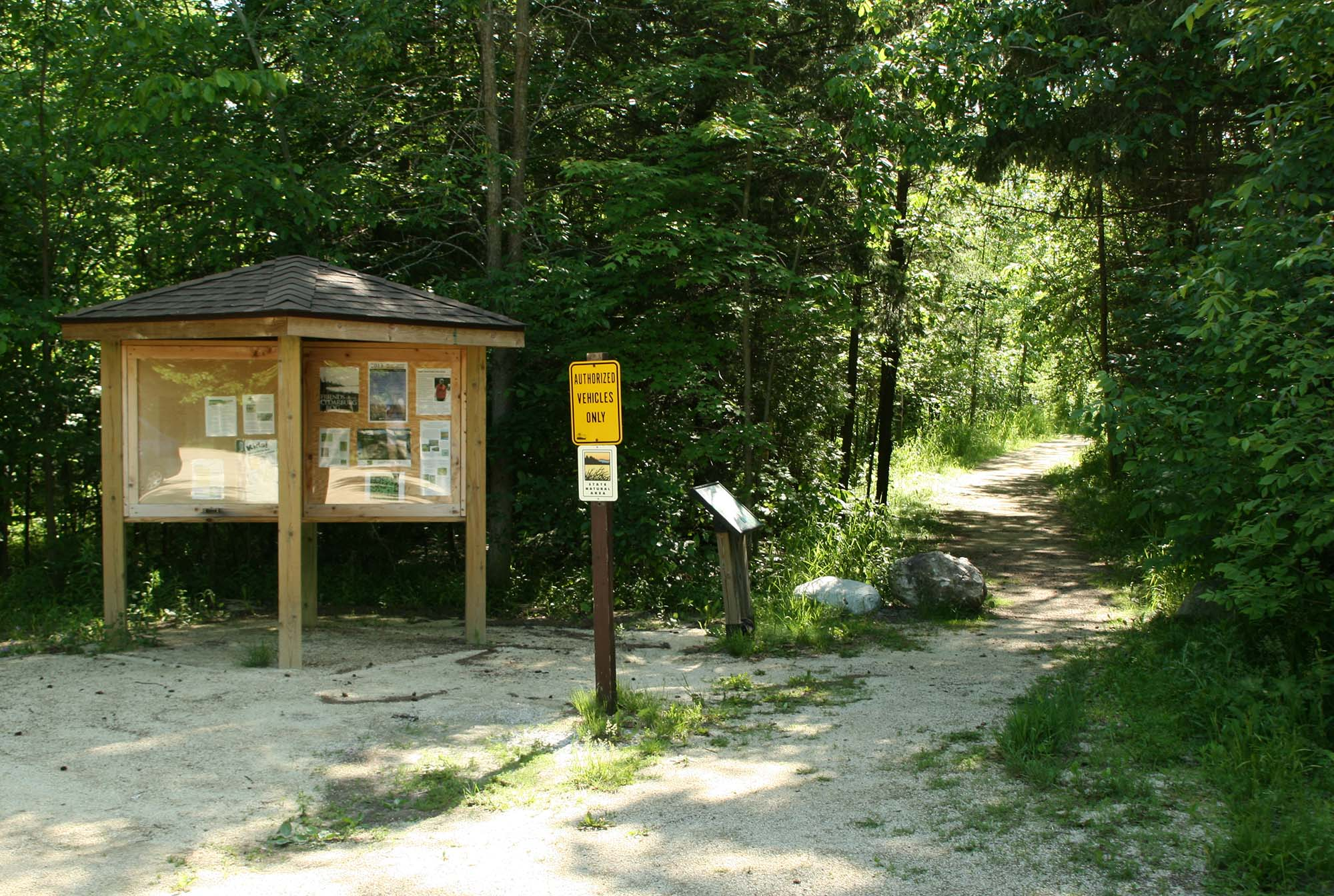 The information boards and the trailhead at the north side of the Cedarburg Bog State Natural Area, in Ozaukee County, Wisconsin.